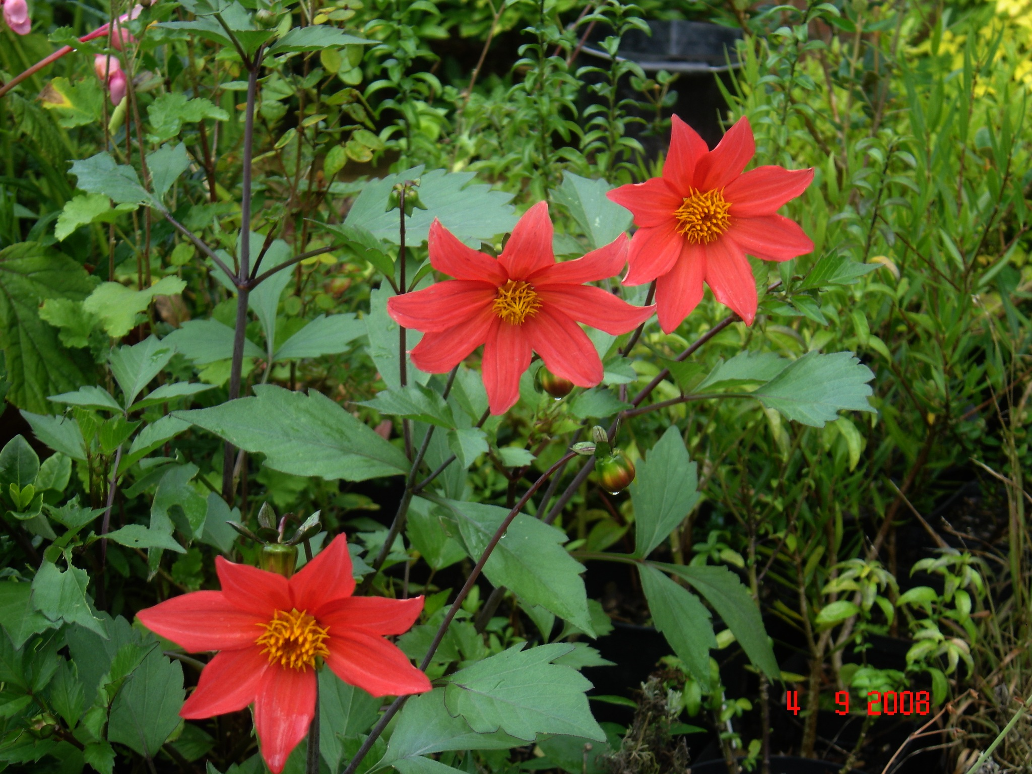 This is a lovely species - the colour is hard to describe and to capture - a really good warm salmon red - not as dark as D.coccinea. Bought from Ingwersens summer 2008 just before they went out of business. They claim it is fairly hardy. Probably needs as dry a winter as possible. Update - tubers completely dead after being kept dry in the greenhouse through winter 2008-9. What a shame.